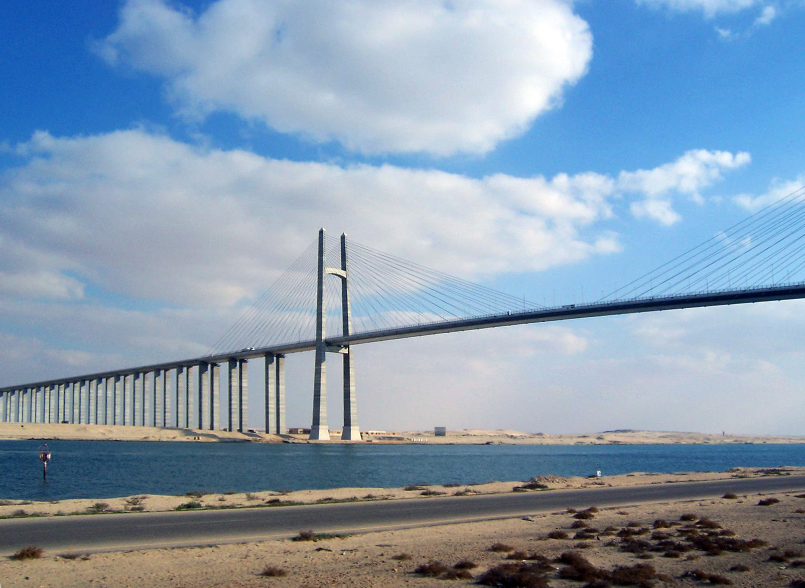 Photos from winter Egypt trip 2007 Jan-Feb